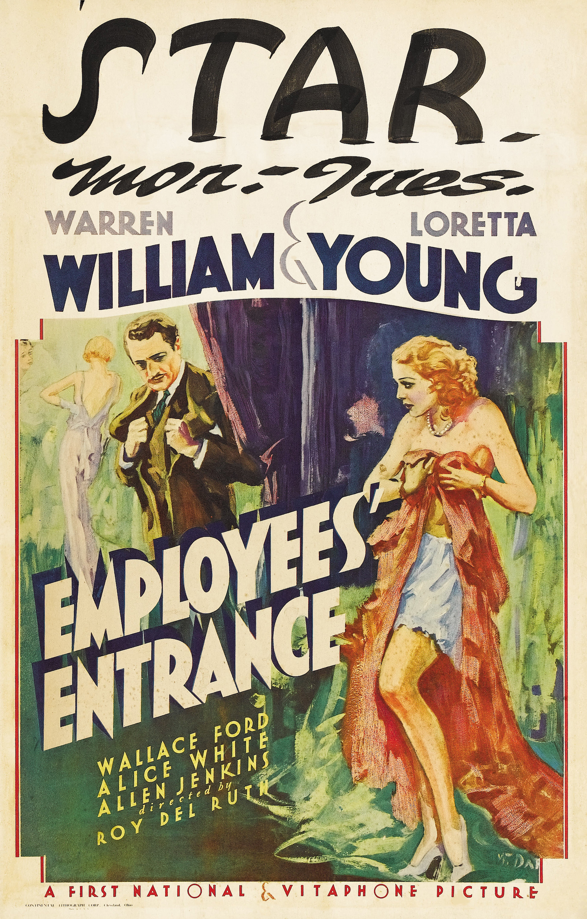 Film poster/lobby card for the 1933 film Employees' Entrance.